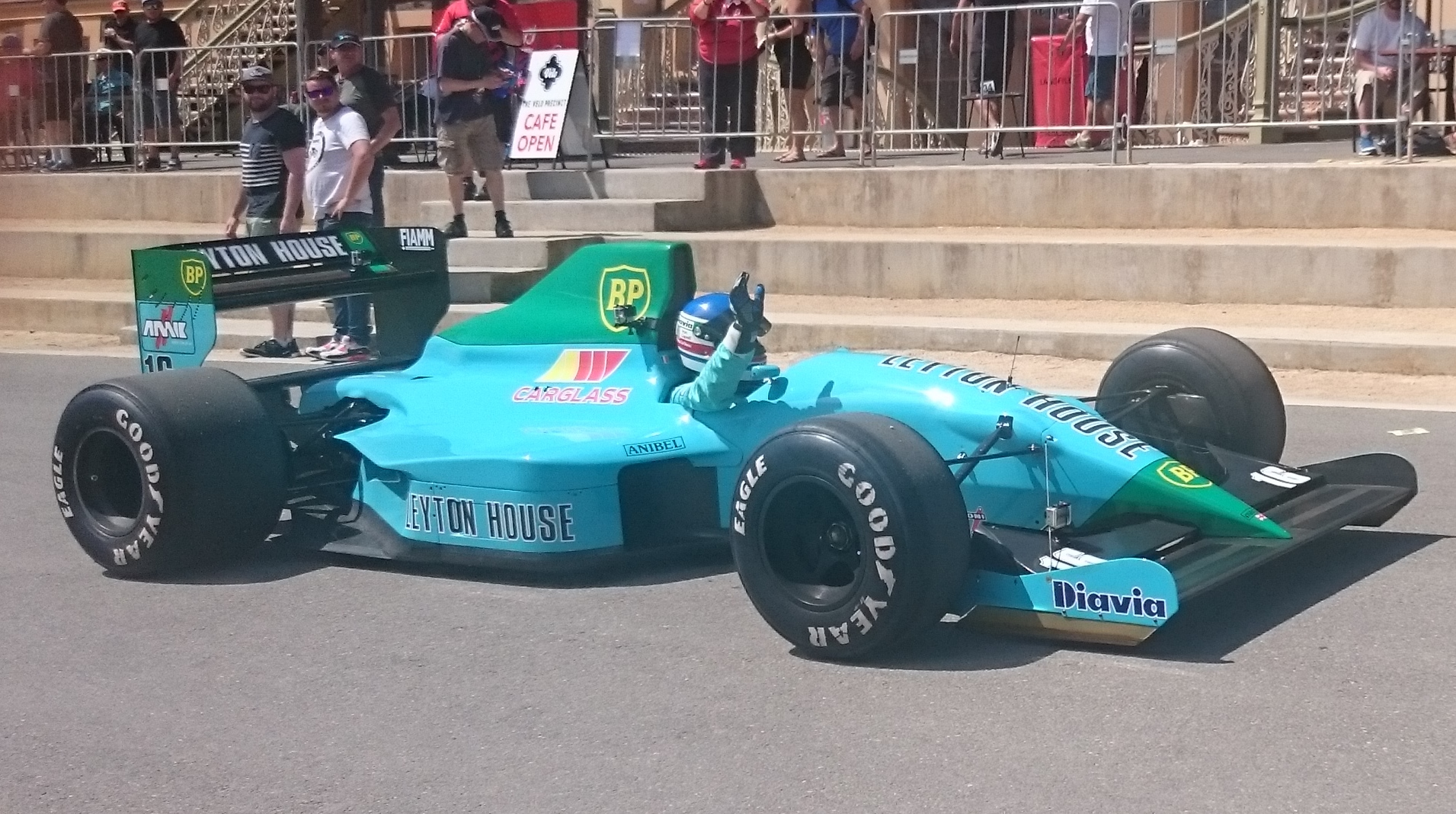 March CG891 of Andy Higgins, driven by Ivan Capelli at the 2016 Adelaide Motorsport Festival